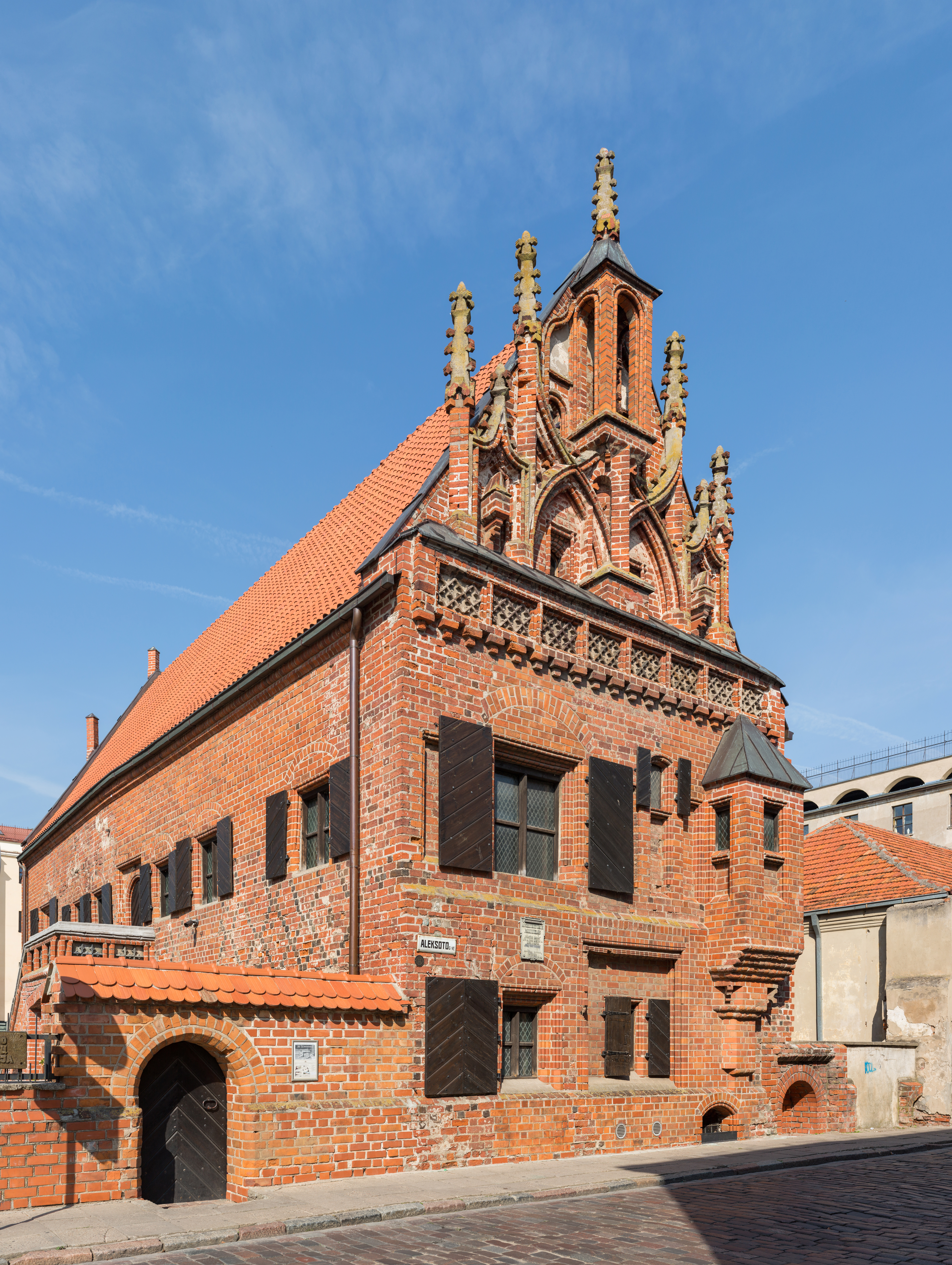 The exterior of House of Perkūnas in Kaunas, Lithuania.